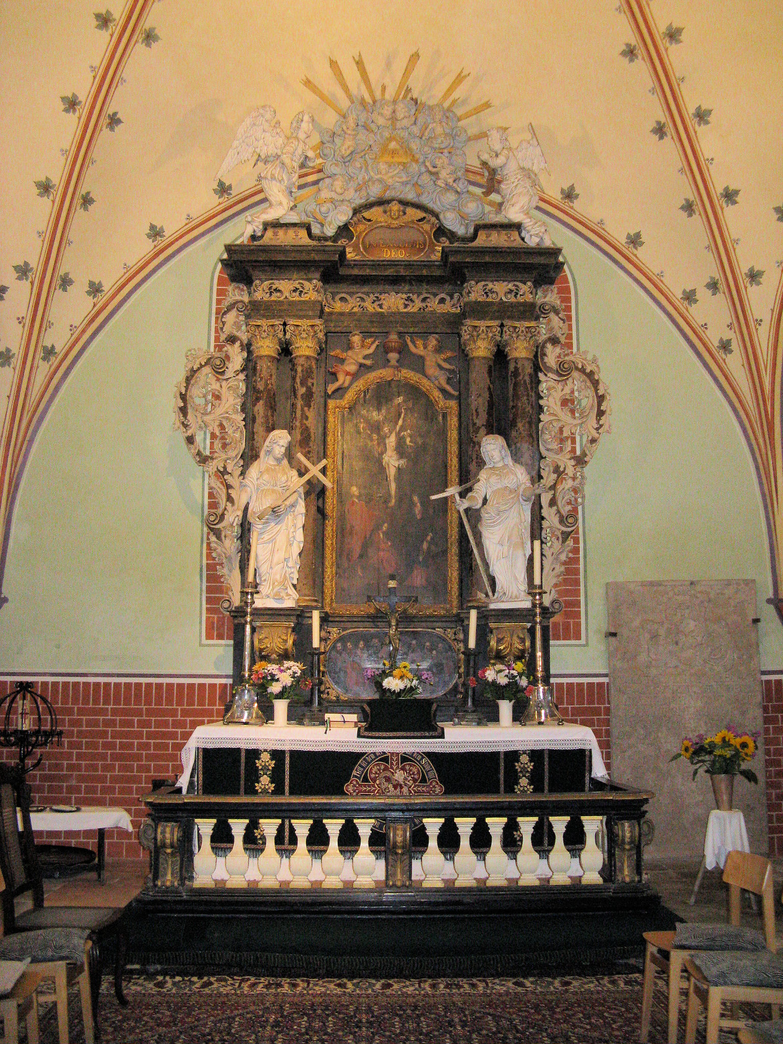 Altar in the church in Neukirchen, disctrict Güstrow, Mecklenburg-Vorpommern, Germany